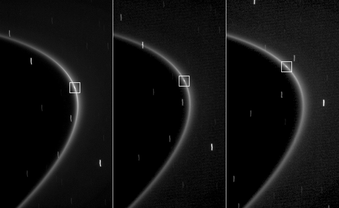 "Tiny Moonlet Within G Ring Arc" Caption released with image: This sequence of three images, obtained by NASA's Cassini spacecraft over the course of about 10 minutes, shows the path of a newly found moonlet in a bright arc of Saturn's faint G ring. In each image, a small streak of light within the ring is visible. Unlike the streaks in the background, which are distant stars smeared by the camera's long exposure time of 46 seconds, this streak is aligned with the G ring and moves along the ring as expected for an object embedded in the ring. Cassini scientists interpret the moving streak to be reflected light from a tiny moon half a kilometer (a third of mile) wide that is likely a major source of material in the arc and the rest of the G ring. Debris knocked off this moon forms a relatively bright arc of material near the inner edge of the G ring, the most visible part of the ring in these images. That arc, in turn, leaks material to form the entire ring. These images were captured by Cassini's narrow-angle camera on Oct. 27, 2008. The first image (left) was taken in visible light, the second image (middle) was taken in red light, and the third image (right) in near-infrared light centered at a wavelength of 750 nanometers. Image scale for the first image is 7 kilometers (4 miles) per pixel. The second and third images were taken at reduced resolution. These spatially compressed images were captured at 14 kilometers (9 miles) per pixel and then displayed at a size equal to the first image. This view looks toward the un-illuminated side of the rings from about 5 degrees above the ringplane. The view was acquired at a distance of approximately 1.2 million kilometers (751,000 miles) from Saturn and at a sun-Saturn-spacecraft, or phase, angle of 23 degrees.